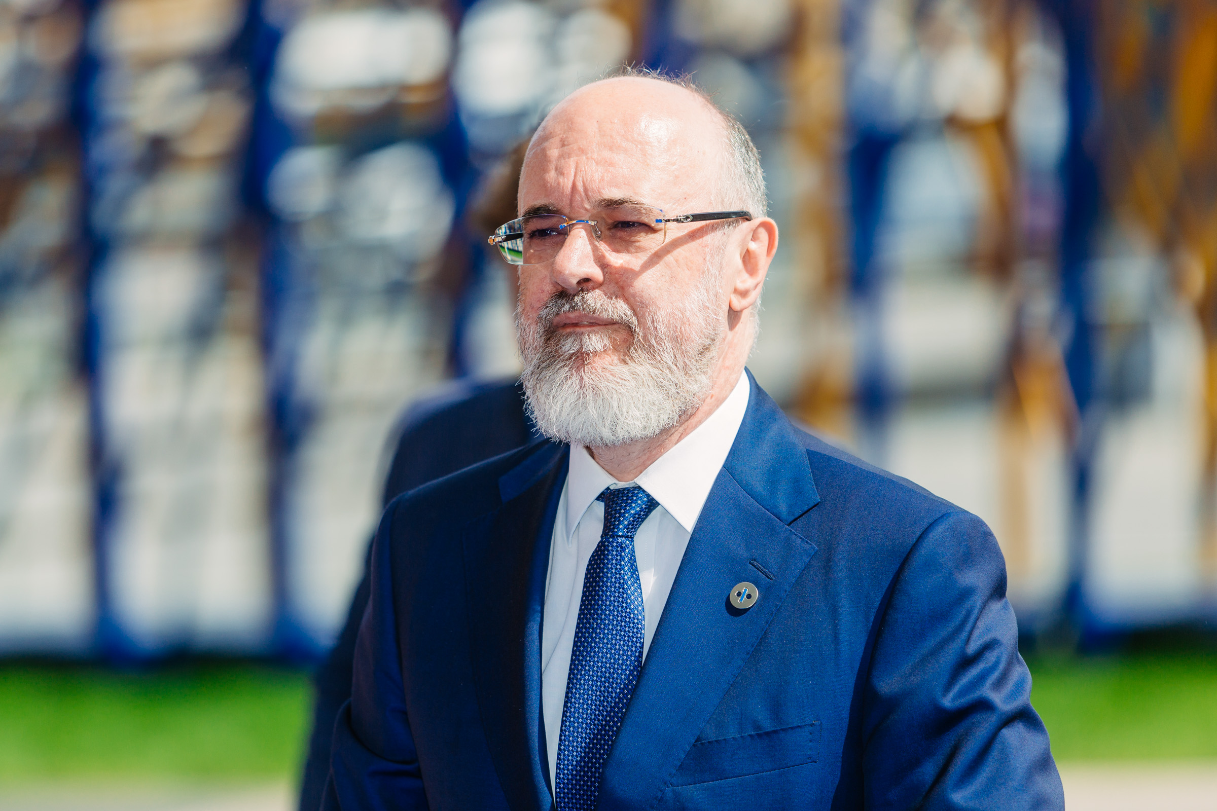 Clemens Martin Auer, Director General, Federal Ministry of Health and Women’s Affairs, Austria